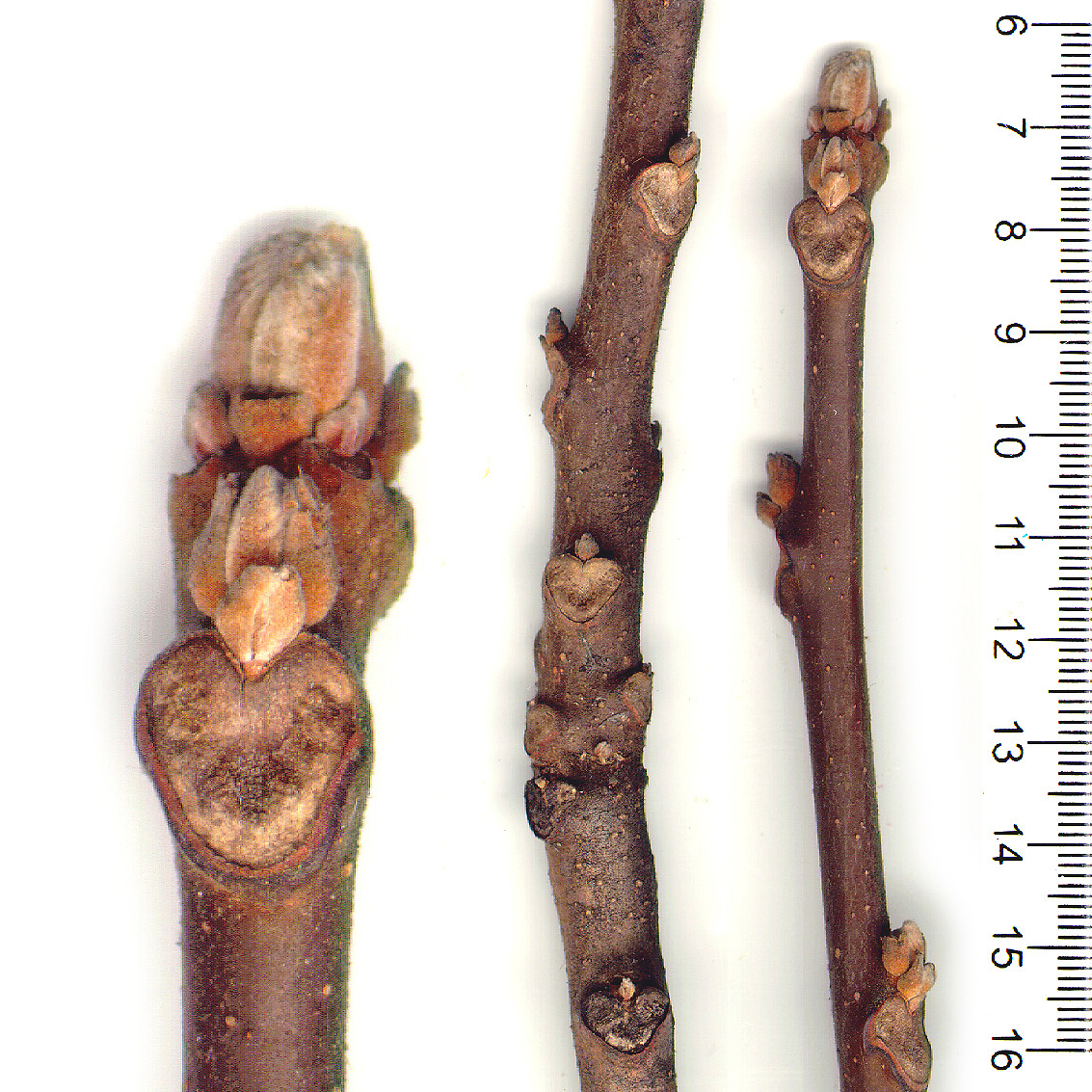 Juglans nigra winter twig